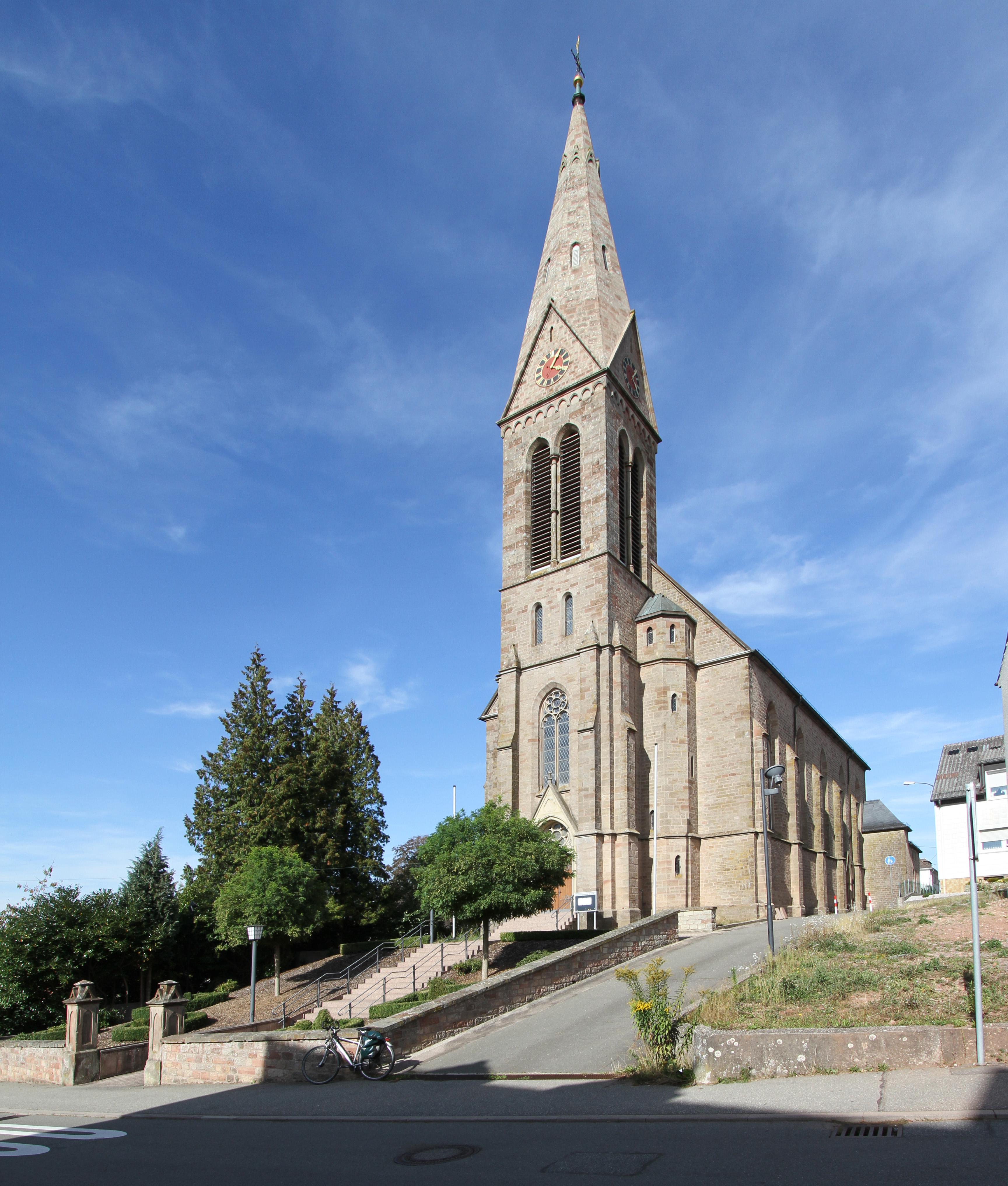 Church of Saint Joseph in Pirmasens-Fehrbach.